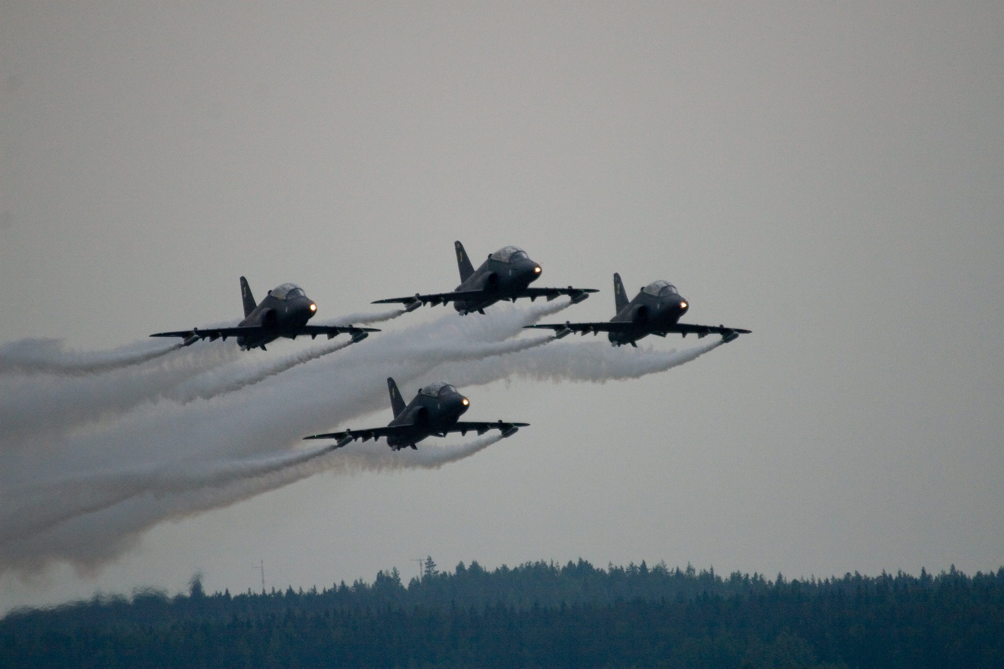 Finnish aerobatic team, Midnight Hawks